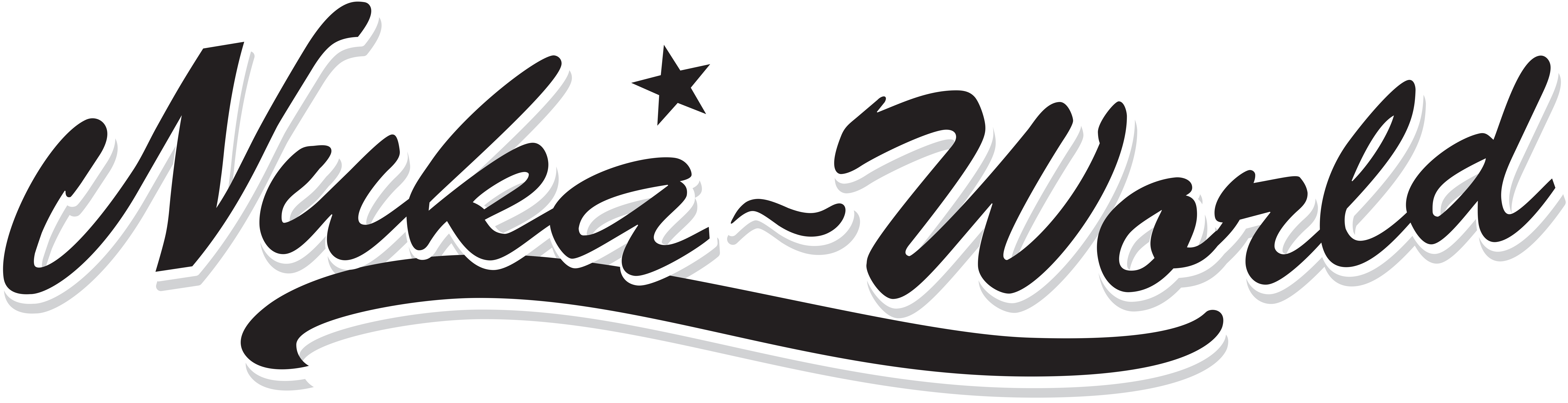 The logotype for "Nuka-World" in "Fallout 4".